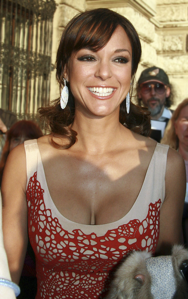 Actress Eva LaRue at the Romy TV awards (Hofburg Imperial Palace in Vienna)